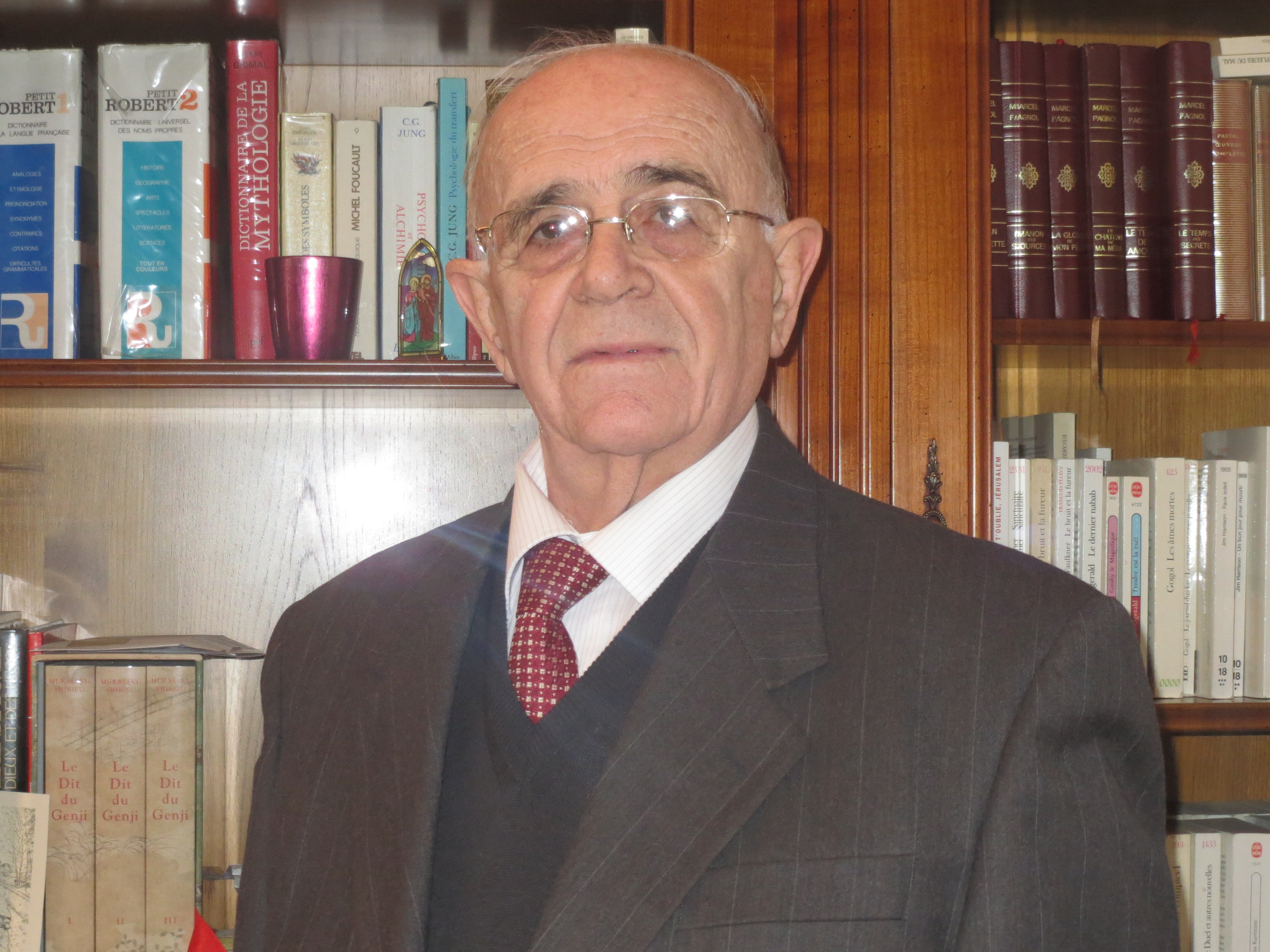 Asti Papa